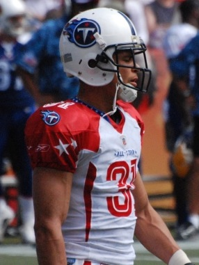 Tennessee Titans Cortland Finnegan at 2009 Pro Bowl